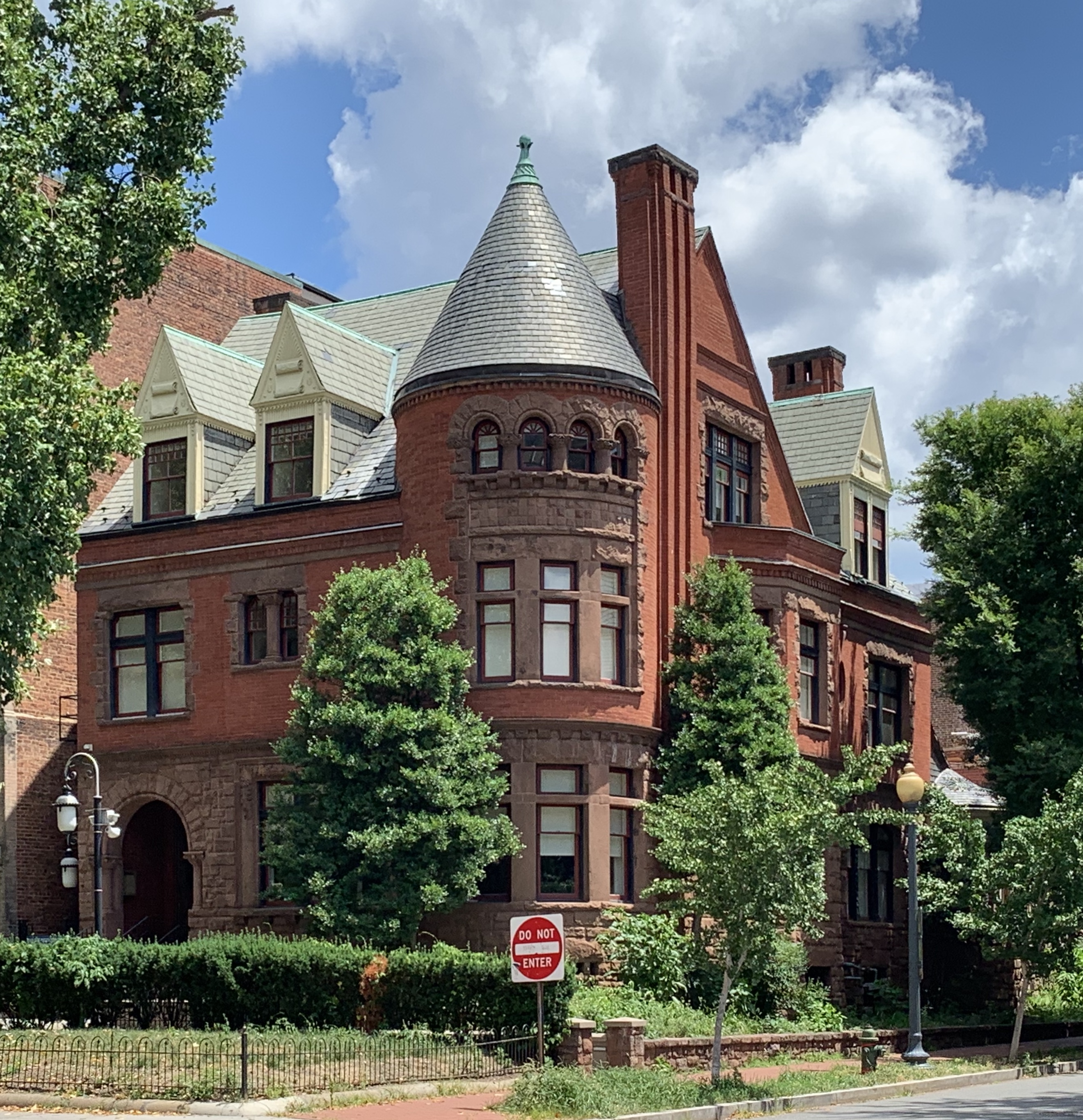 The Hampton P. Denman House (also known as the Denman-Werlich House) located at 1623 16th Street NW in Washington, D.C. The Richardsonian Romanesque house, built in 1886 for Hampton P. Denman, was designed by Albert W. Fuller and William A. Wheeler. For several decades it was the home of socialite Gladys Hinckley Werlich, who was murdered on a sidewalk near the house in 1976. For 30 years the building housed the Green Door mental health clinic before being purchased by the current owner, the Scientology organization Social Betterment Properties International.